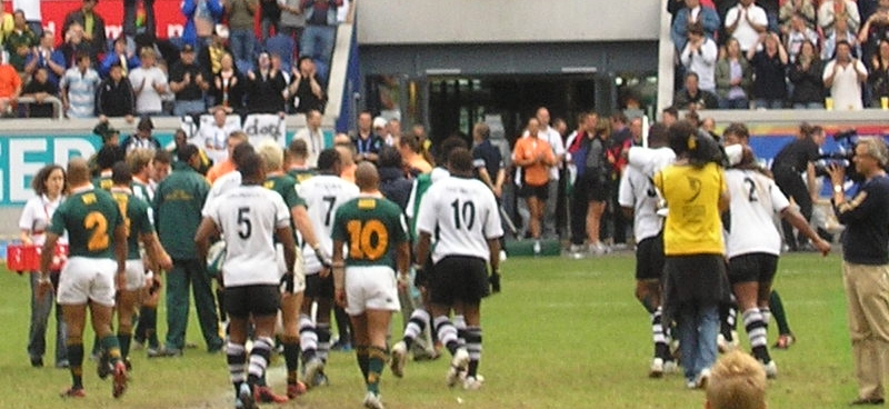 Fiji leave the field after defeating South Africa in the final of the Rugby Sevens tournamnet at the 2005 World Games in Duisburg, Germany.